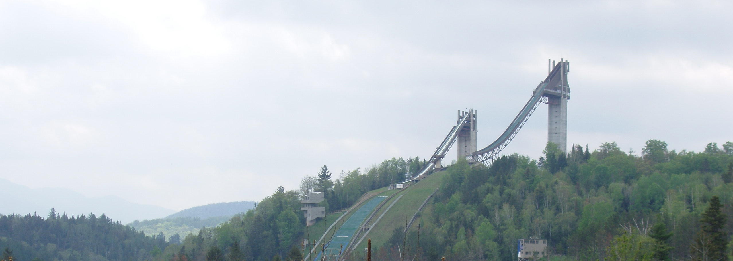 This is a view from Whiteface.